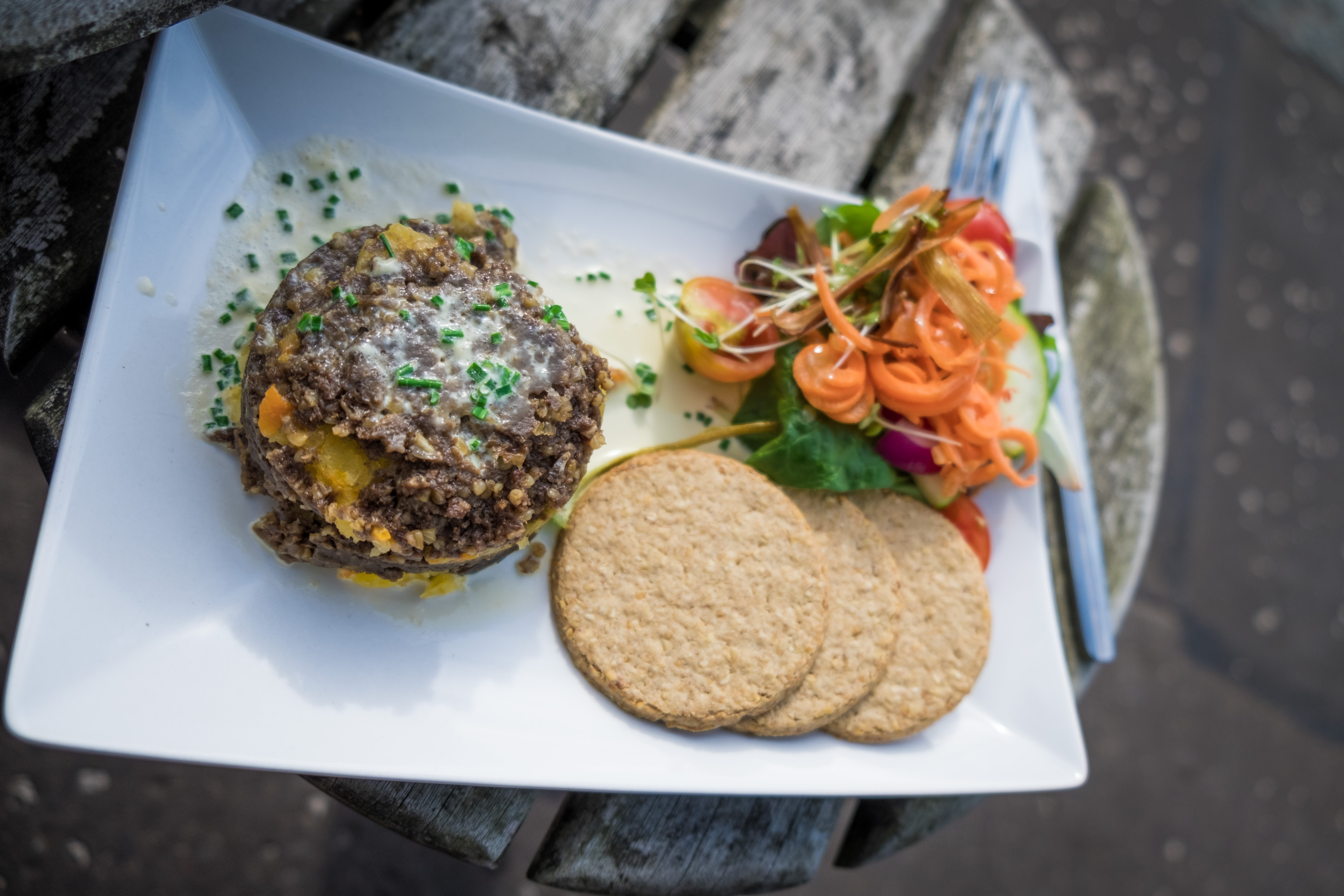 Scottish Haggis with neeps and tatties served in a restaurant